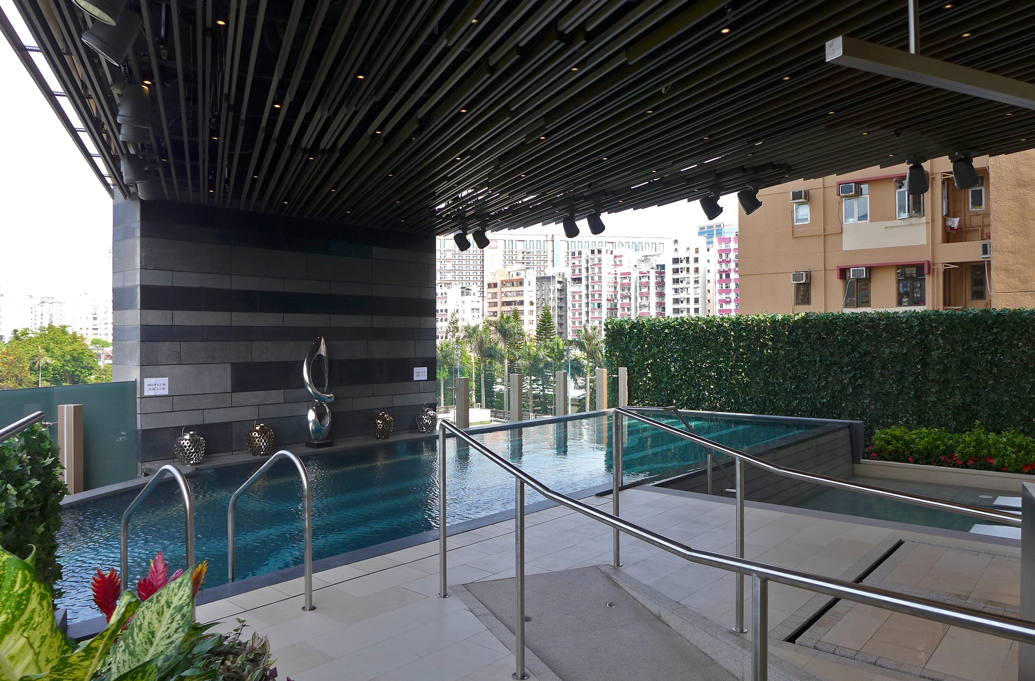 High Park Grand Swimming Pool